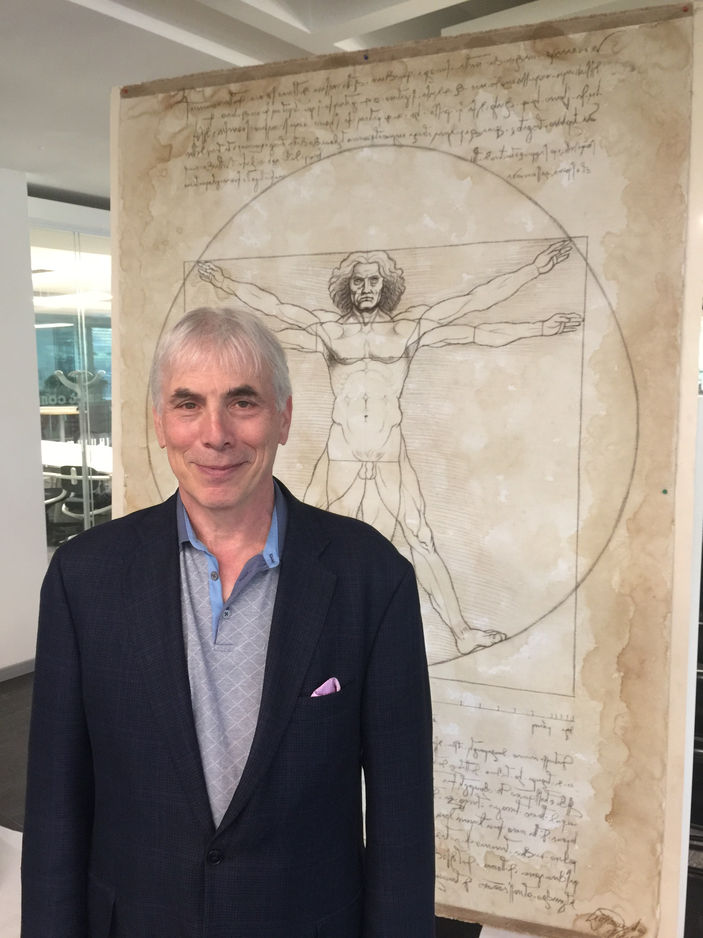 Michael J Gelb with Vitruvian Man rendition